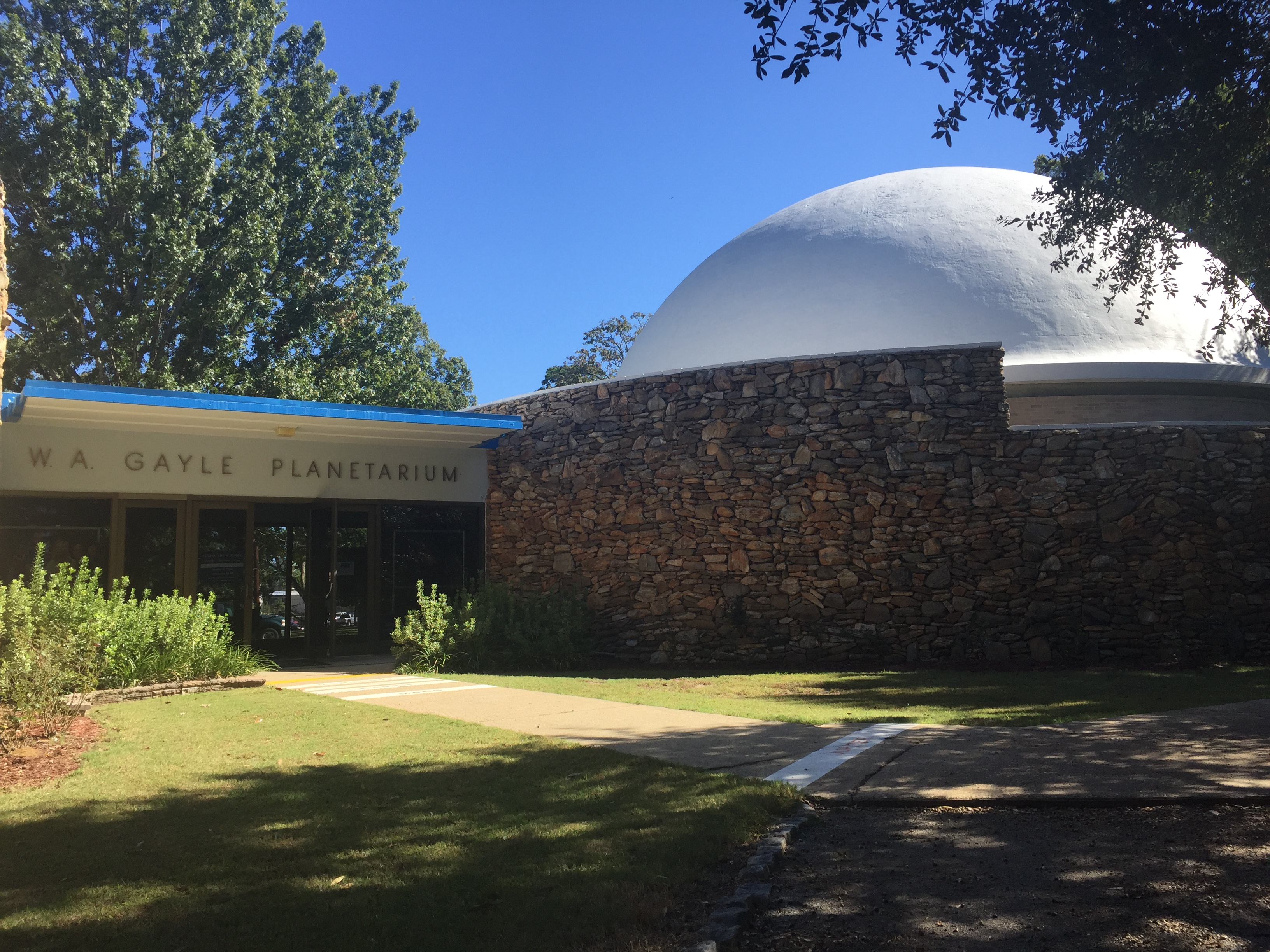 Front entrance to the W. A. Gayle Planetarium in Montgomery, Alabama